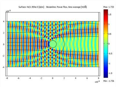 Illustration of how a cloaking device would appear to visible light when deactivated.